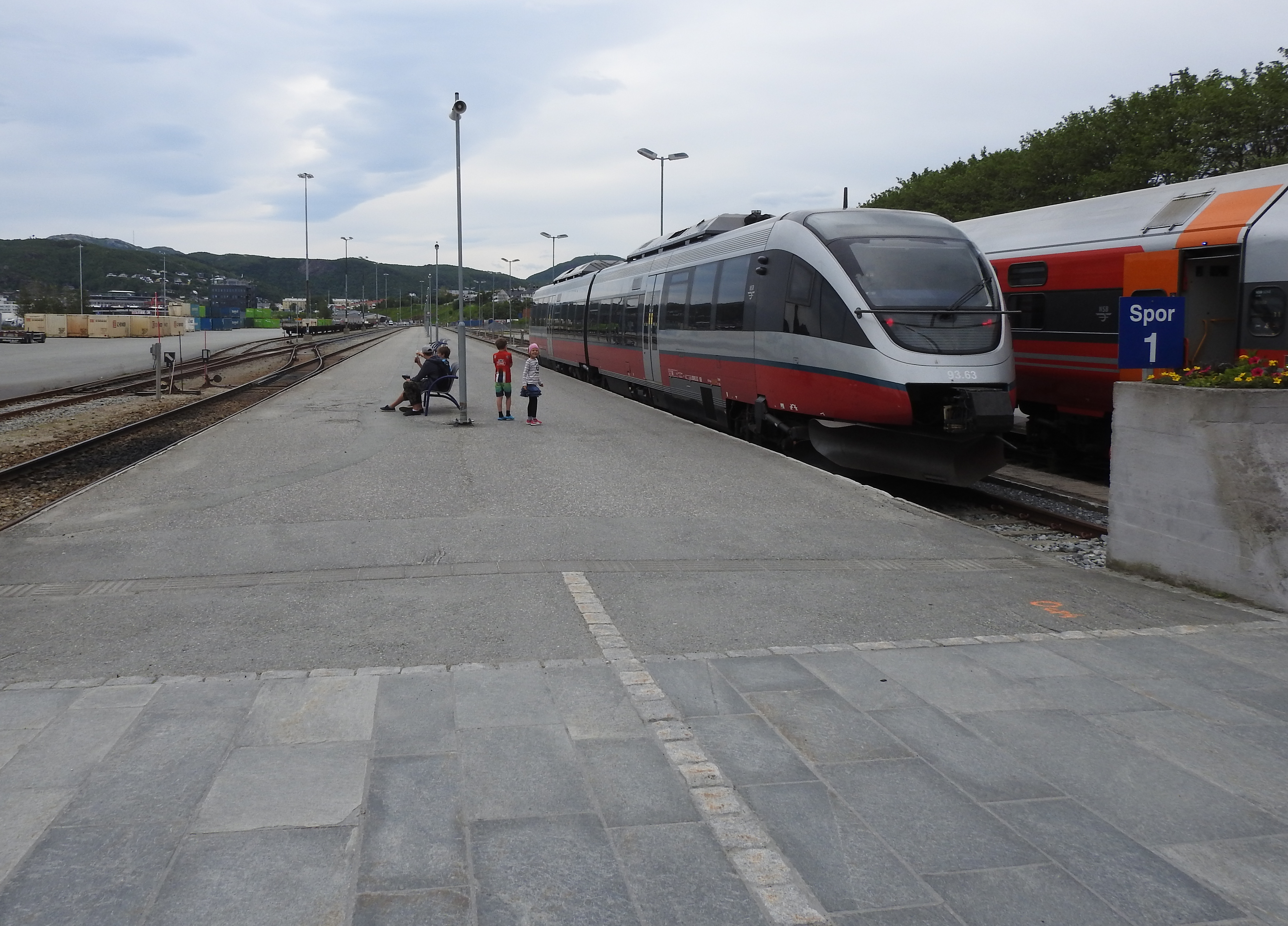 Bodø railwaystation. End of the Nordland railway in Norway.